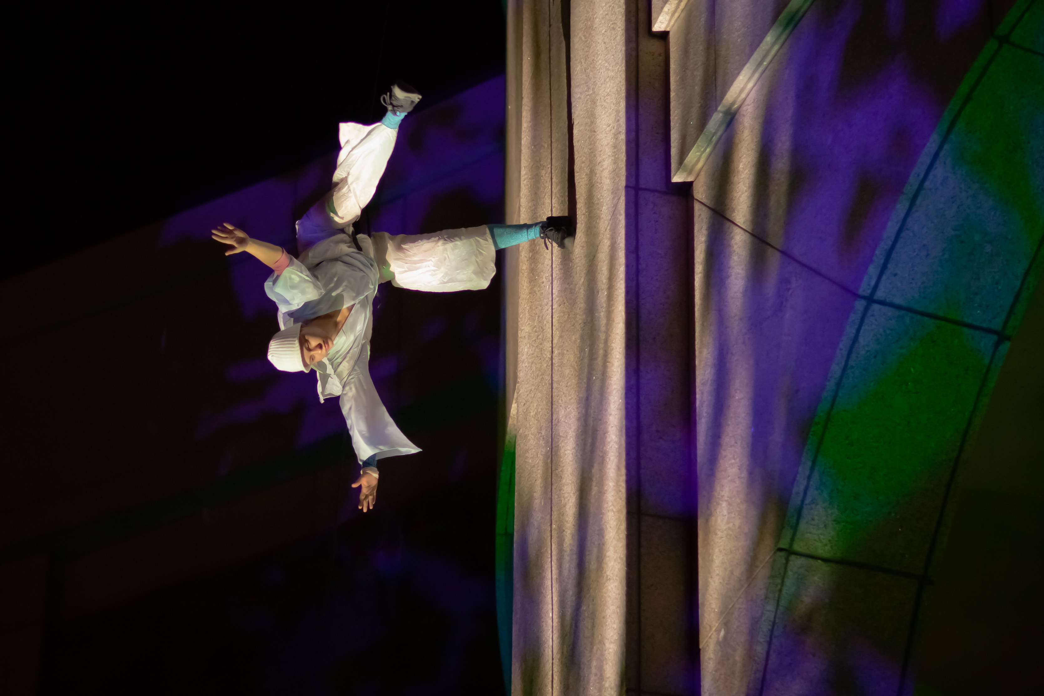 Blue Lapis Light dance company performance on the exterior wall of the Texas State History Museum in Austin, Texas, USA.